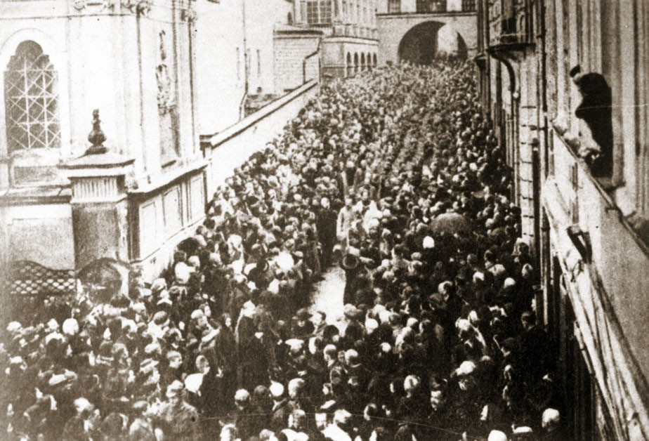 Józef Piłsudski near the Gate of Dawn (Ostra Brama) in Wilno, April 1919. Polish-Soviet war.